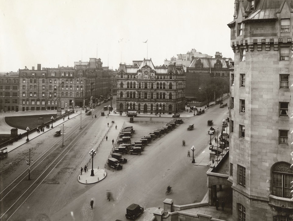 The Old Central Post Office in Ottawa, Ontario, Canada, and the area which would later become Confederation Square.